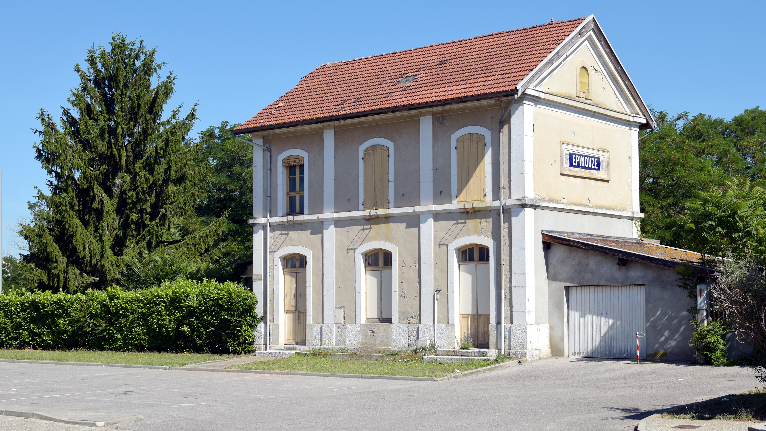 Épinouze